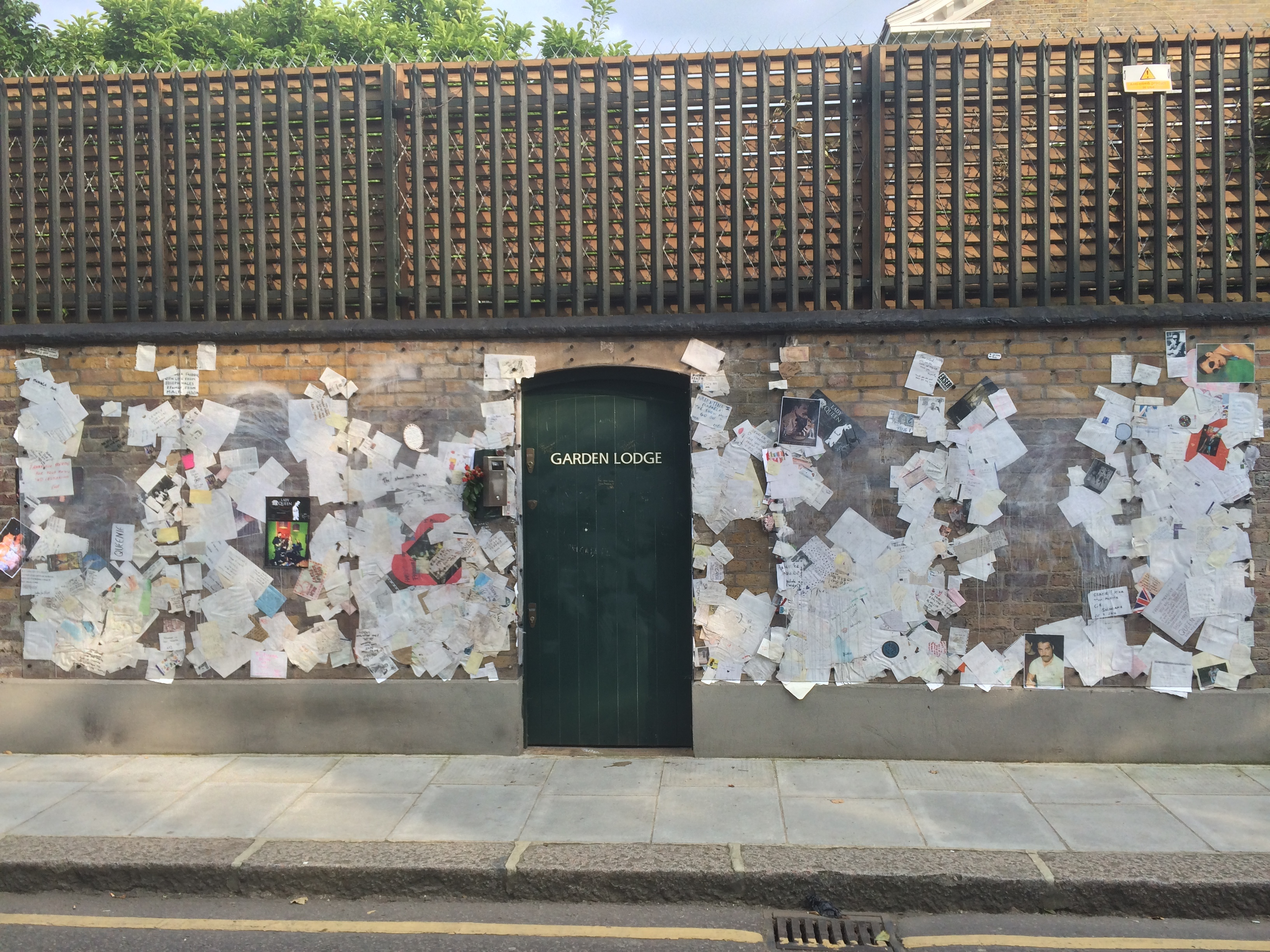 Garden Lodge, house of the late Freddie Mercury, in London.